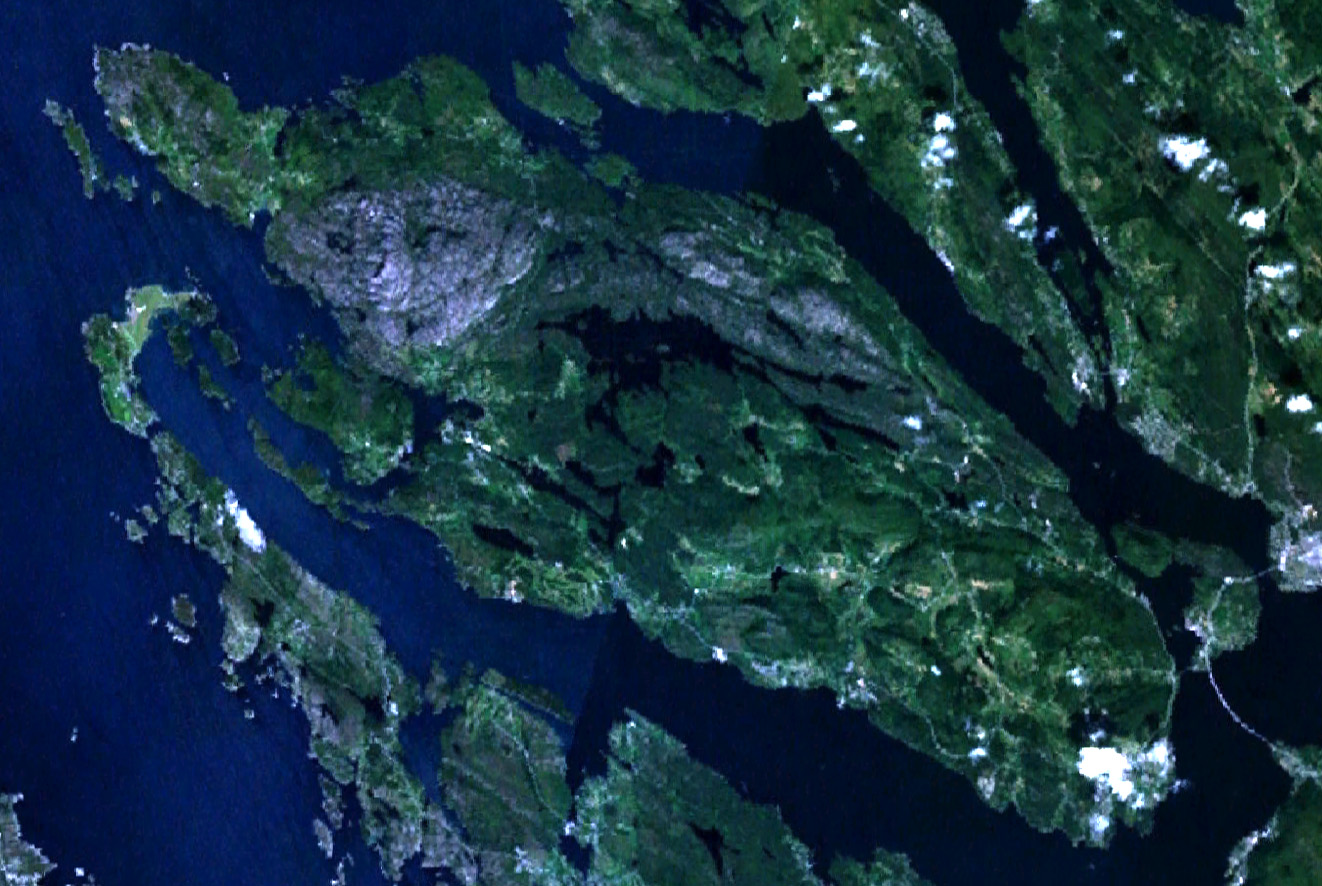 Satellite image of Meland, Hordaland, Norway.